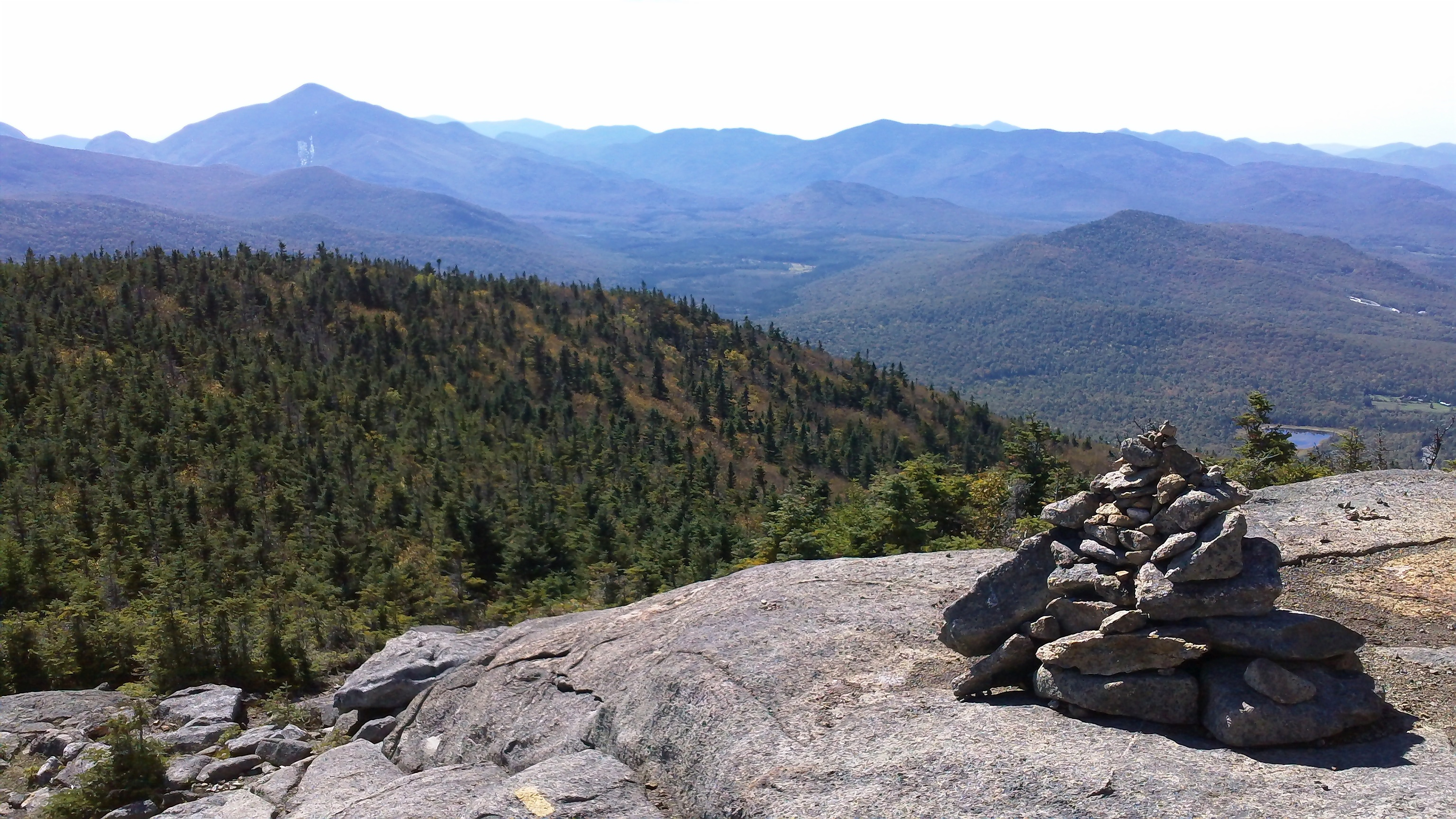 Adirondacks in Essex County, New York